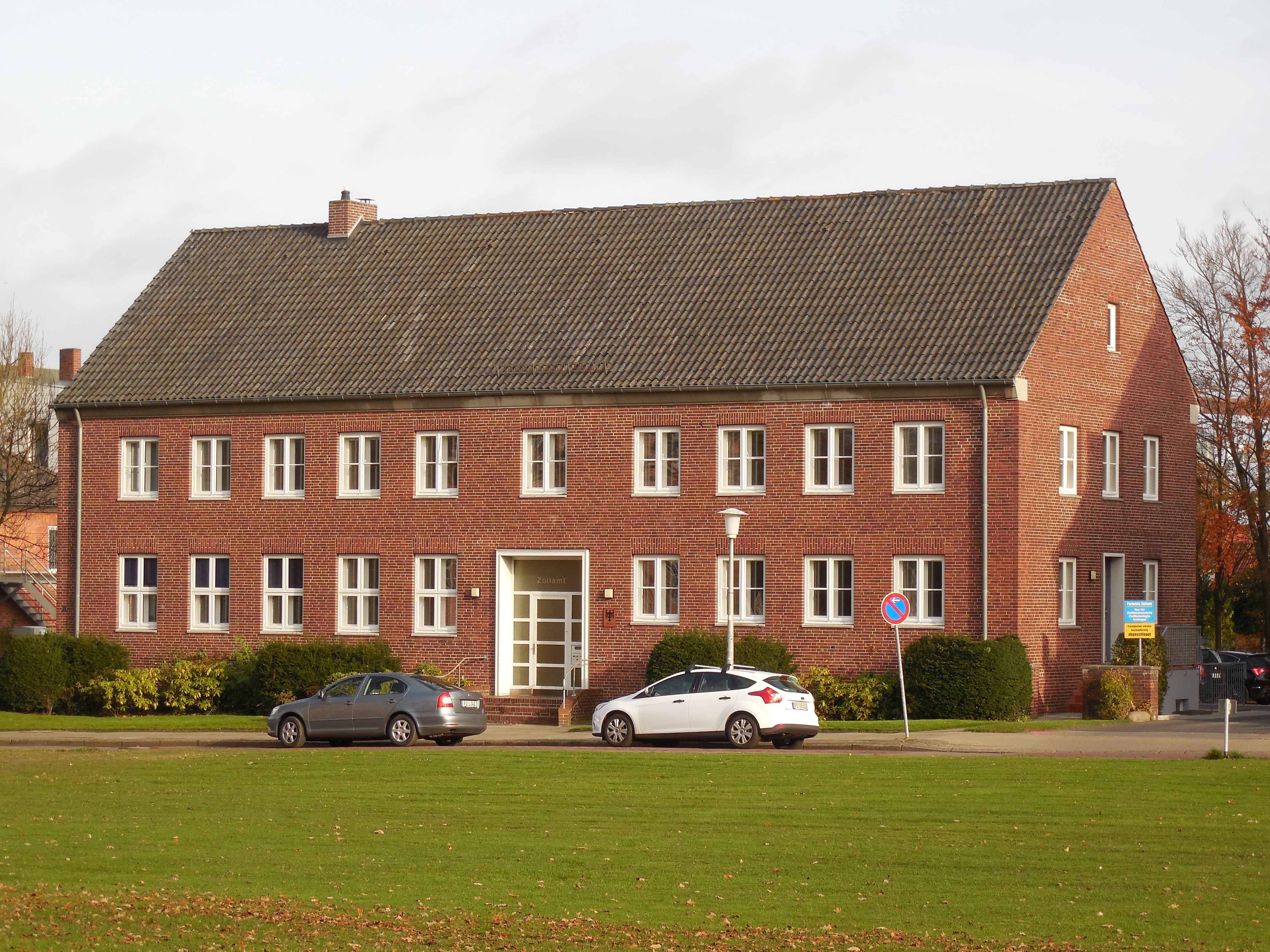 Pinneberg - Am Drosteipark 1 - Zollamt - Baujahr: 1954 -This is a photograph of an architectural monument.